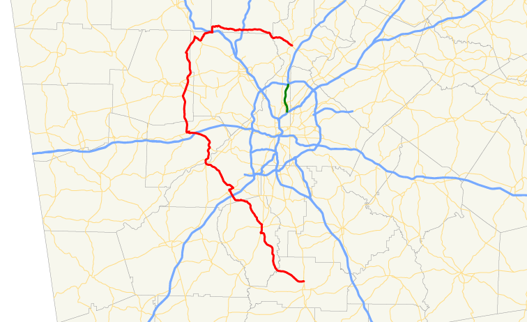 Map of Georgia State Route 92